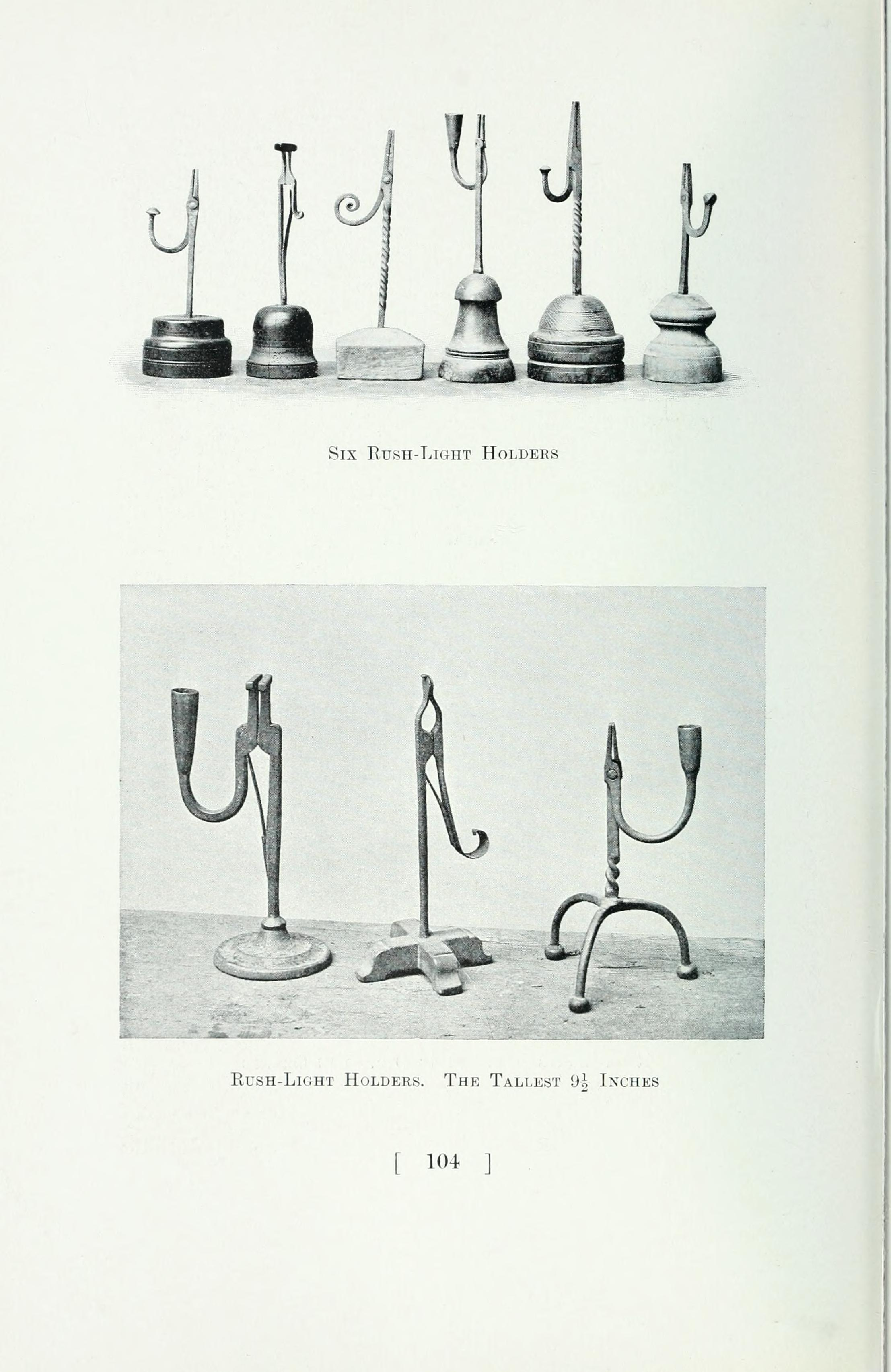 Old west Surrey